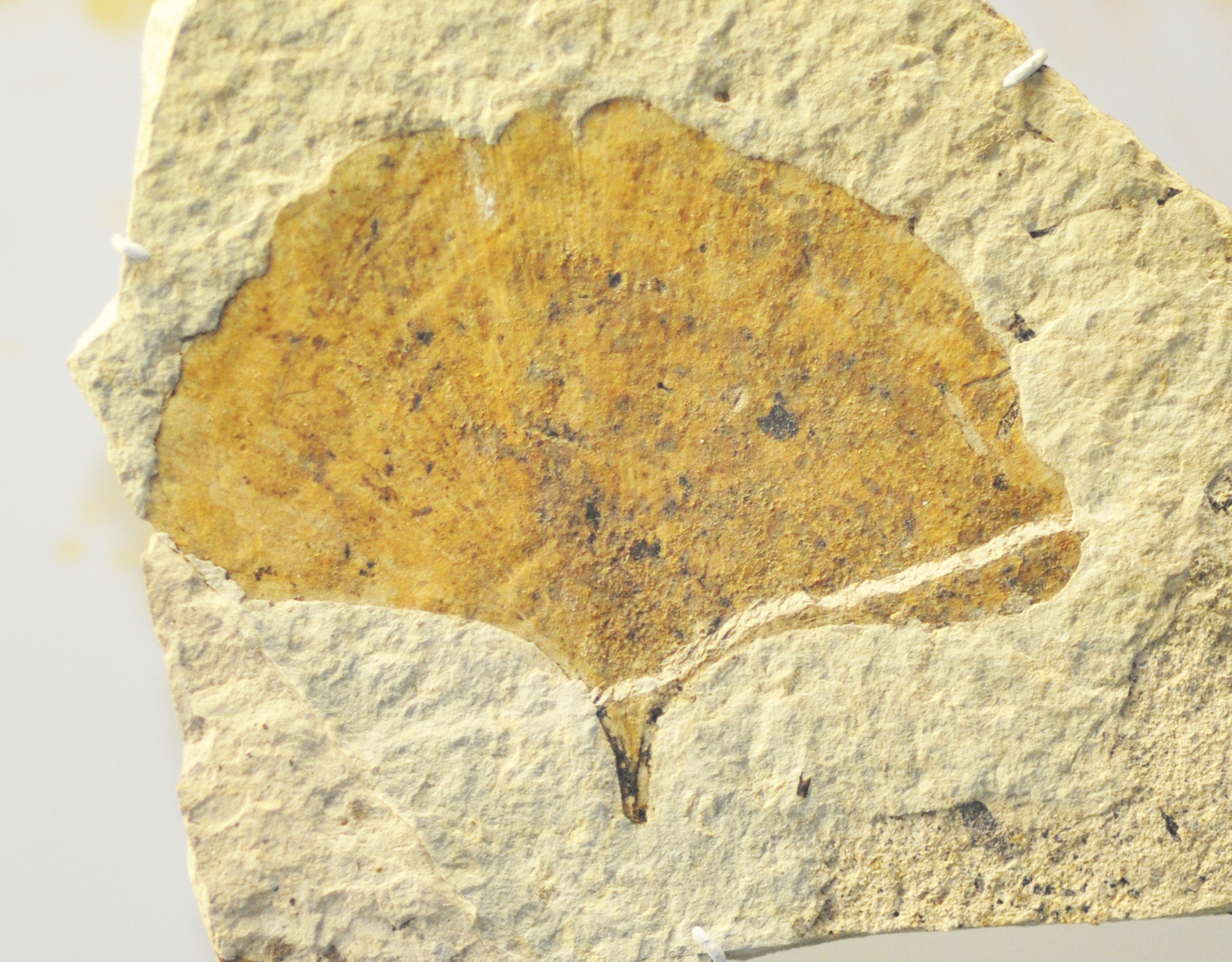 Leaf impression of Ginkgo adiantoides from the early Eocene Klondike Mountain Formation, Republic, Washington. Specimen in the Denver Museum of Natural History.